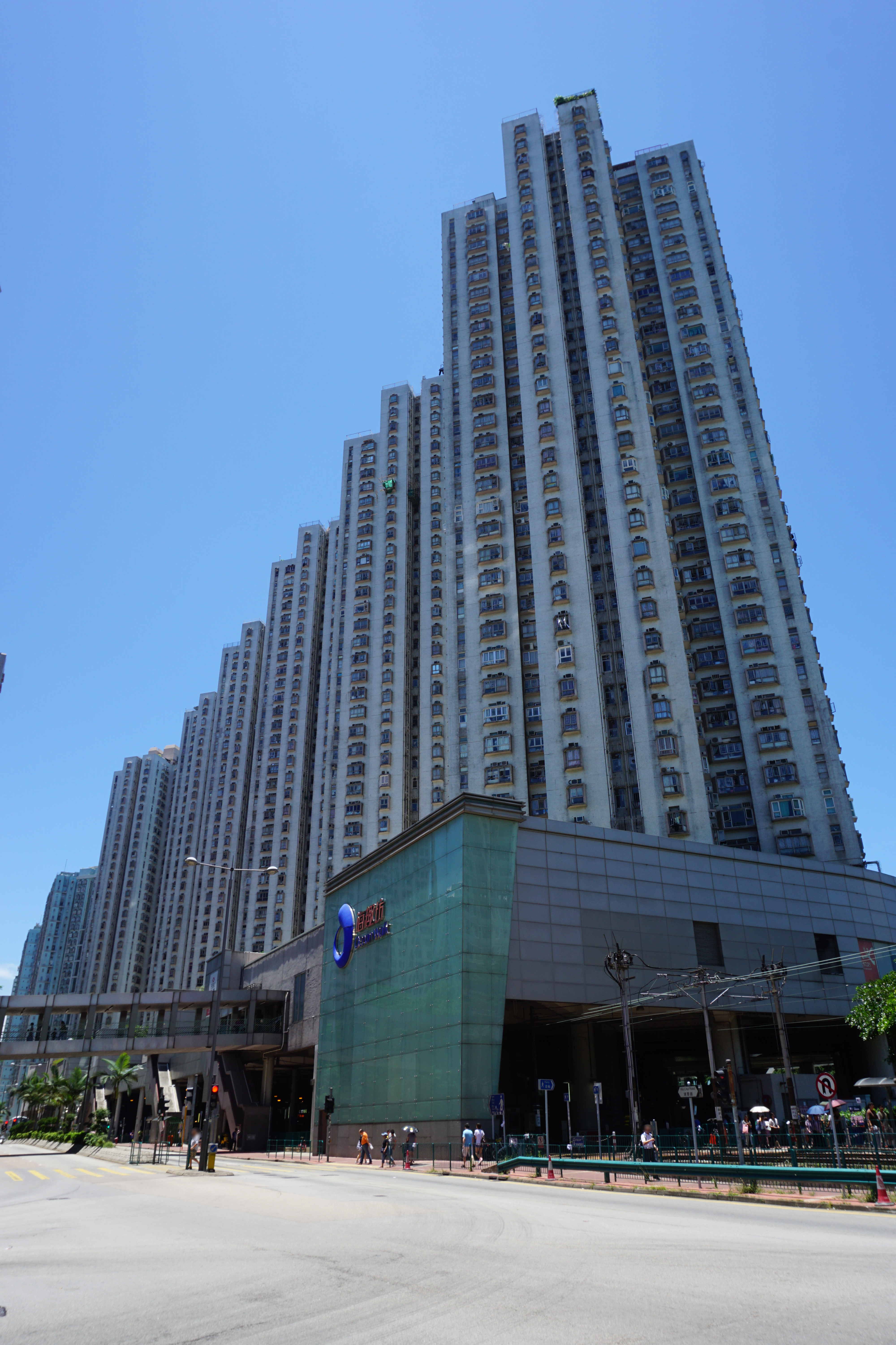 Pierhead Garden in Tuen Mun, Hong Kong.